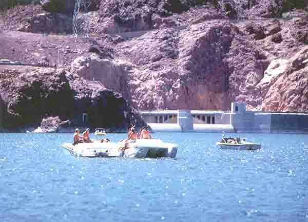 Boaters at Hoover Dam in Lake Mead National Recreation Area